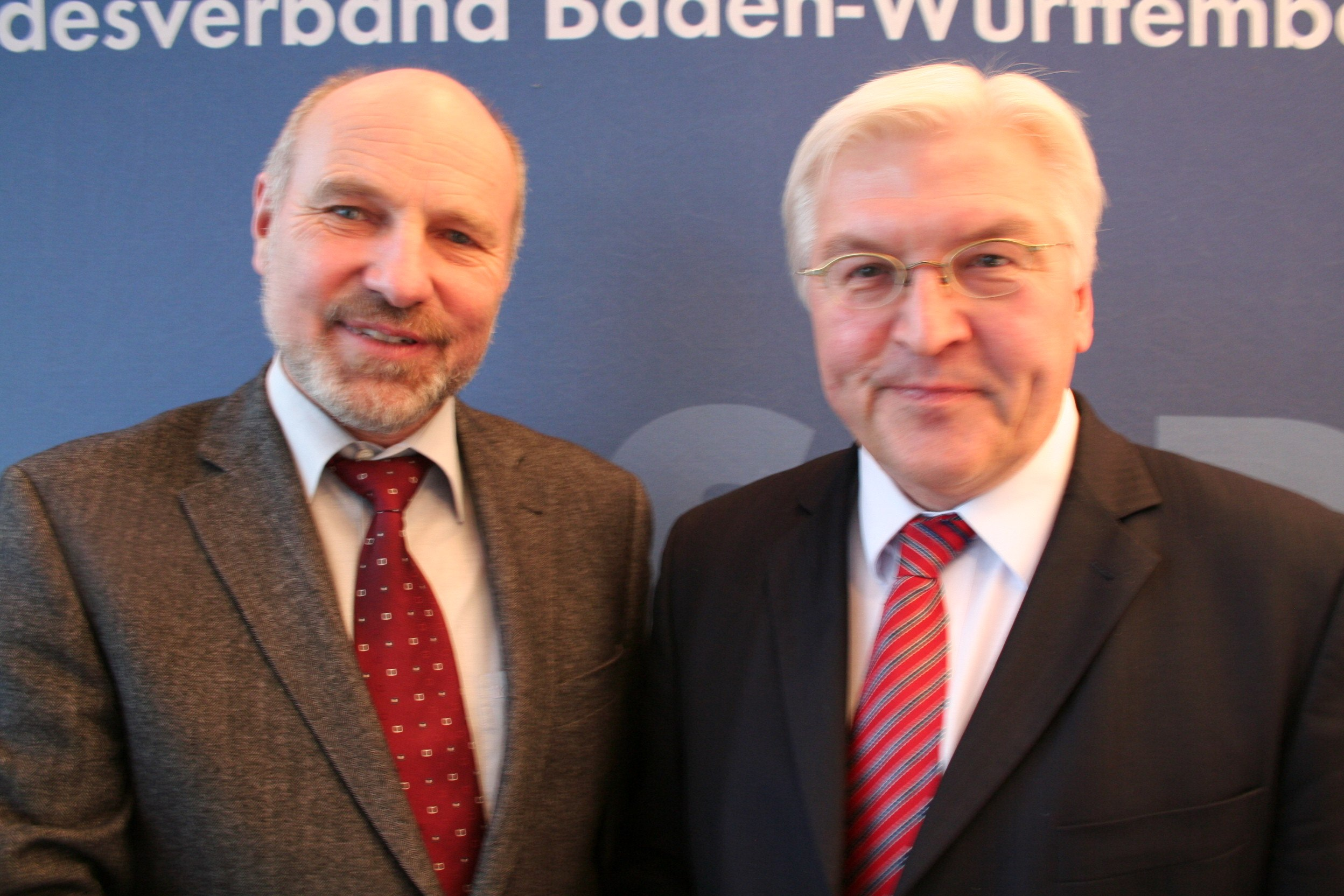 Rainer Arnold, German SPD politician, with Frank-Walter Steinmeier